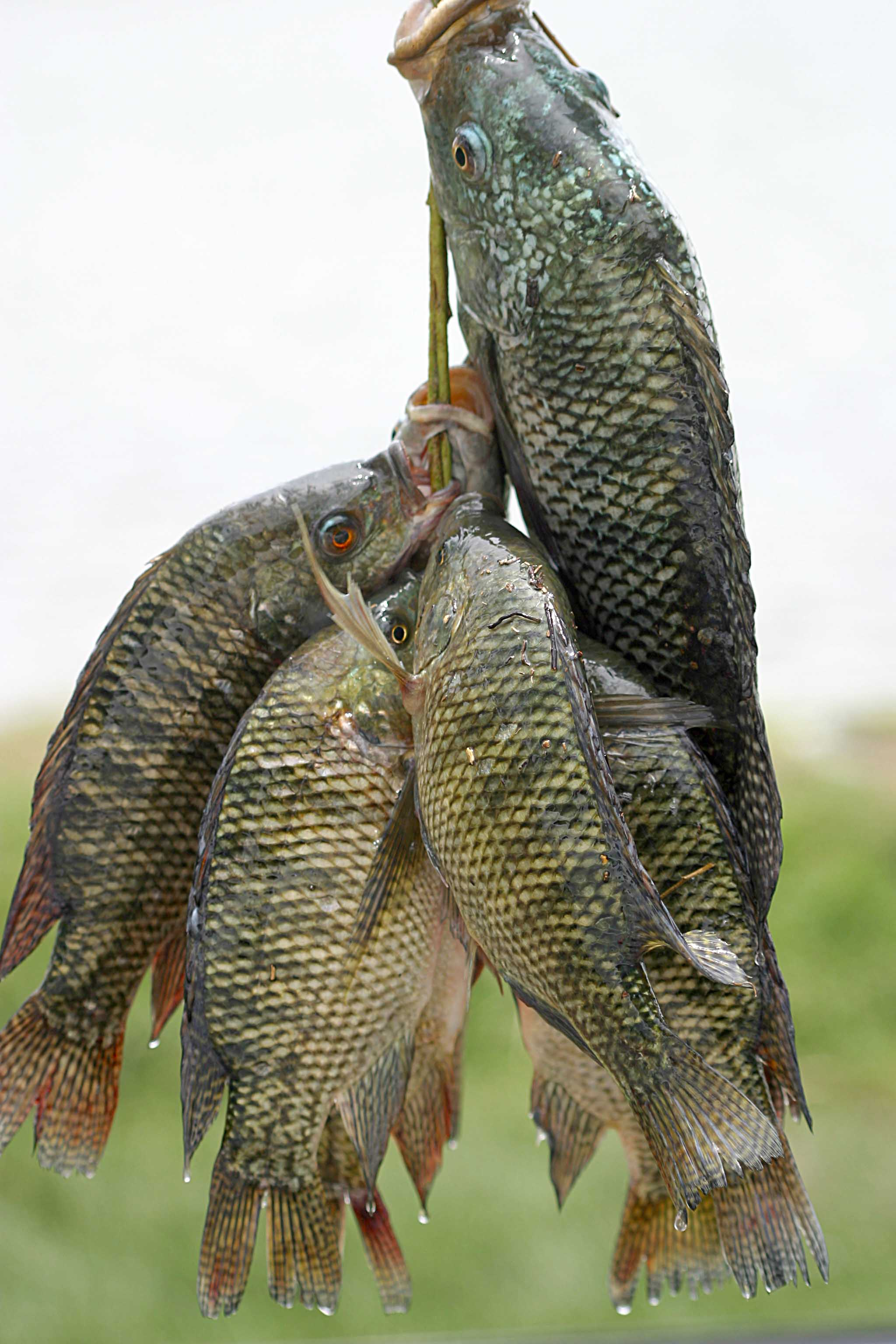 Tilapia caught in Lake Hora, Debre Zeyit, Ethiopia.